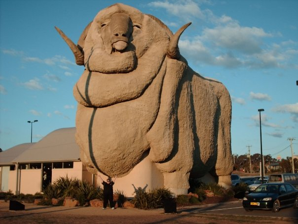 "Rambo" The Big Merino at Goulburn